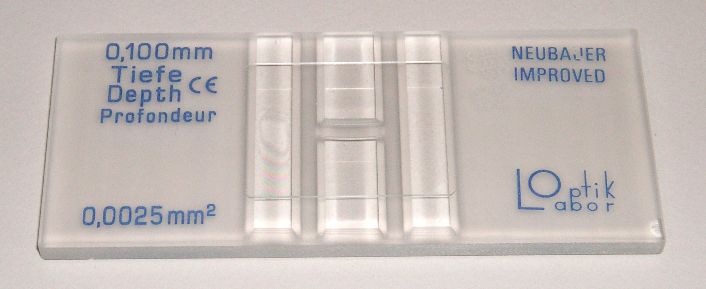 Photography of a Neubauer counting chamber (upper one) and Neubauer improved counting chamber (lower one)